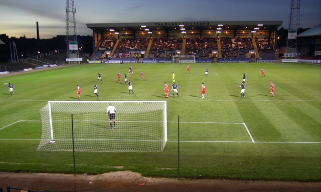 Dens Park, DundeeDens Park, home of Dundee football club. The photograph is taken from the away end with the visitors being Queen of the South Football Club.